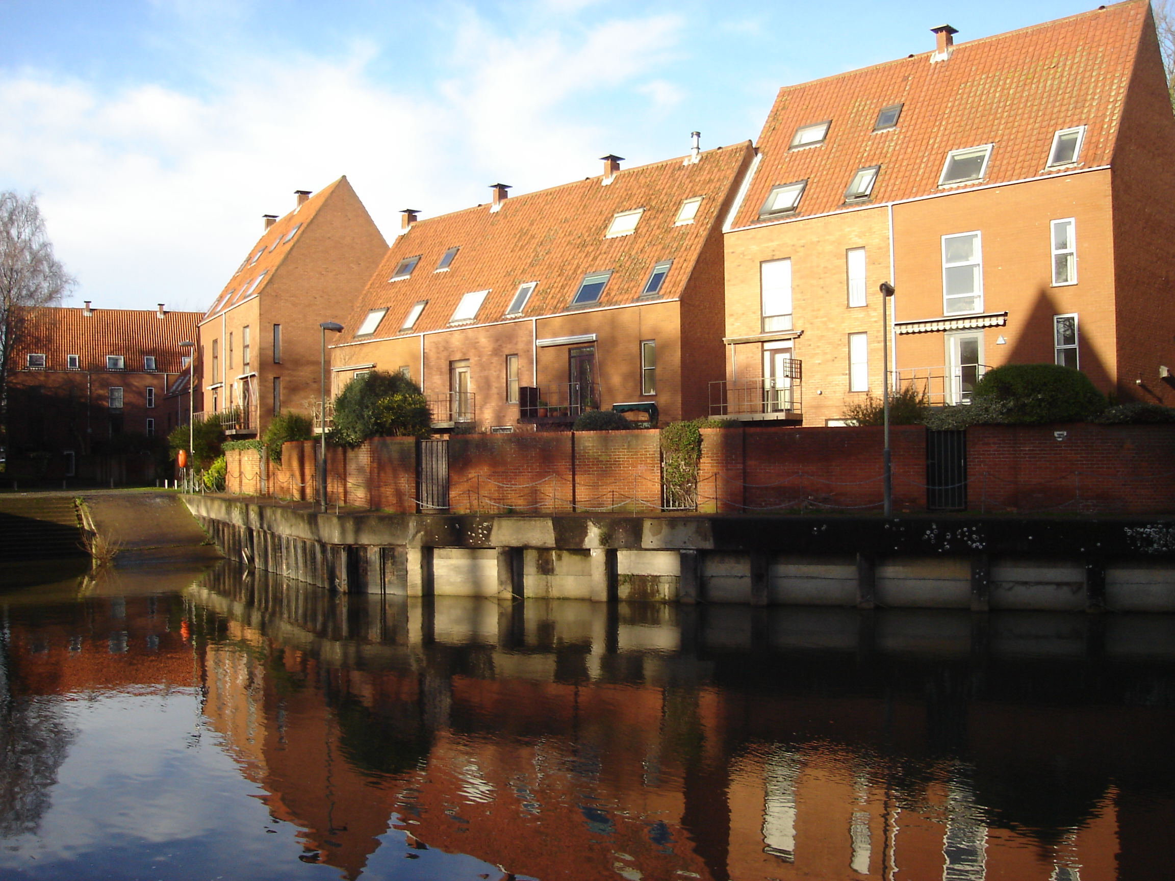 A view across the River Wensum towards the Friars Quay housing development in central Norwich